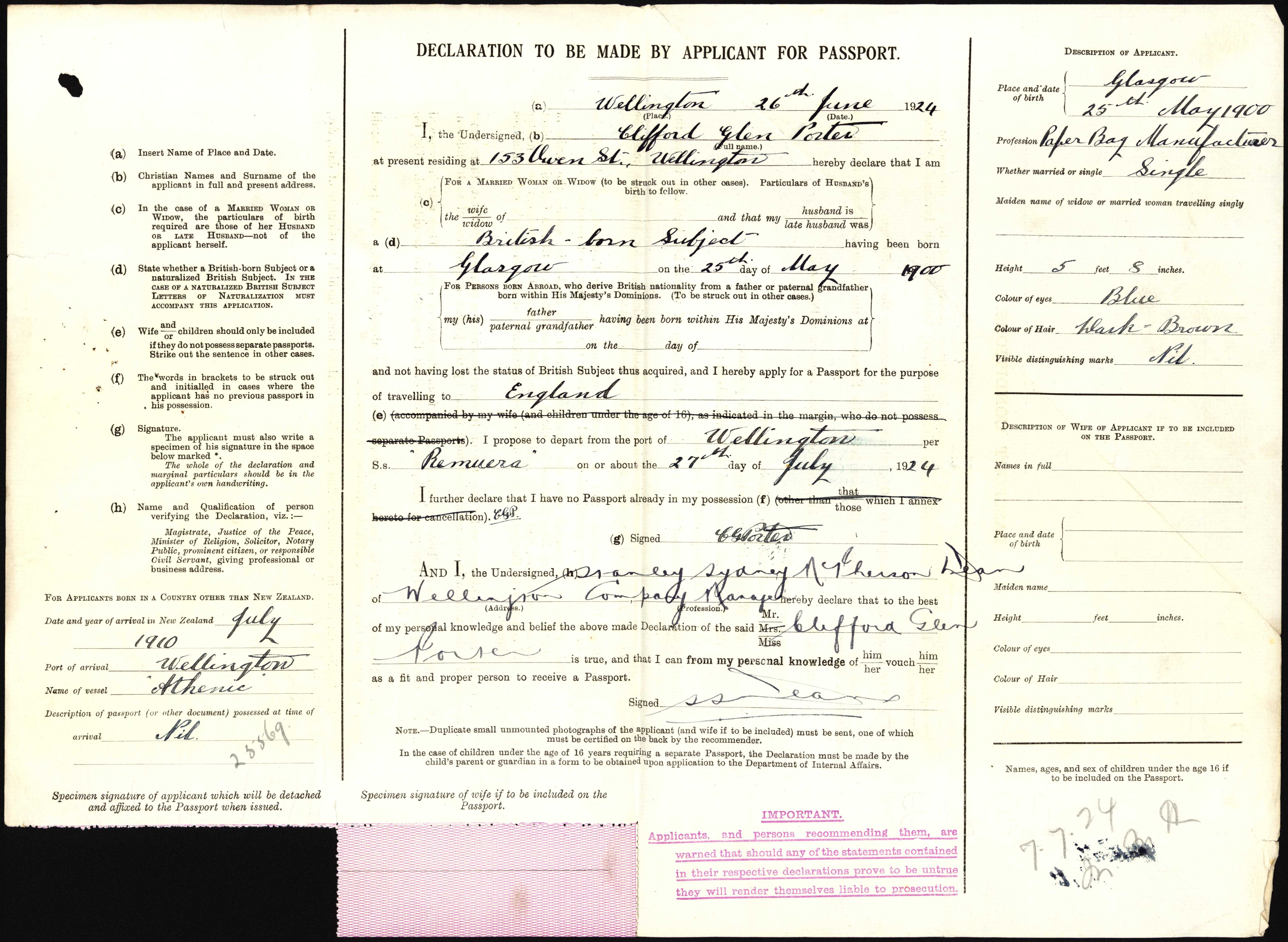 ACGO 8333 IA1 1349 / 15/11/17721 Clifford Glen Porter passport application file (1924)